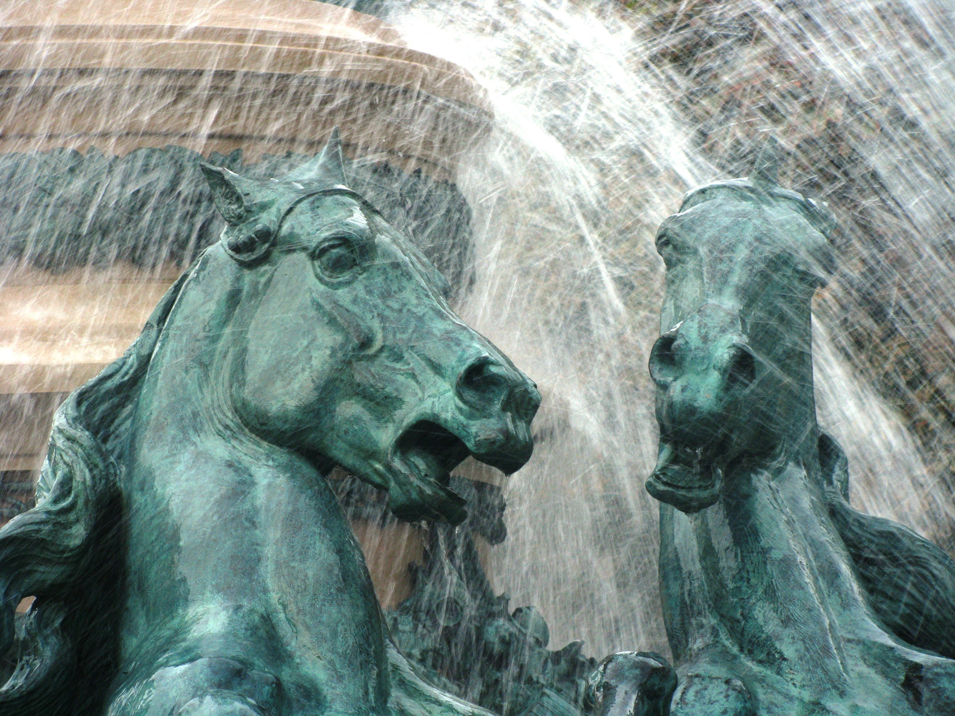 Detail of horses in Fontaine des Quatre-Parties-du-Monde at Paris.